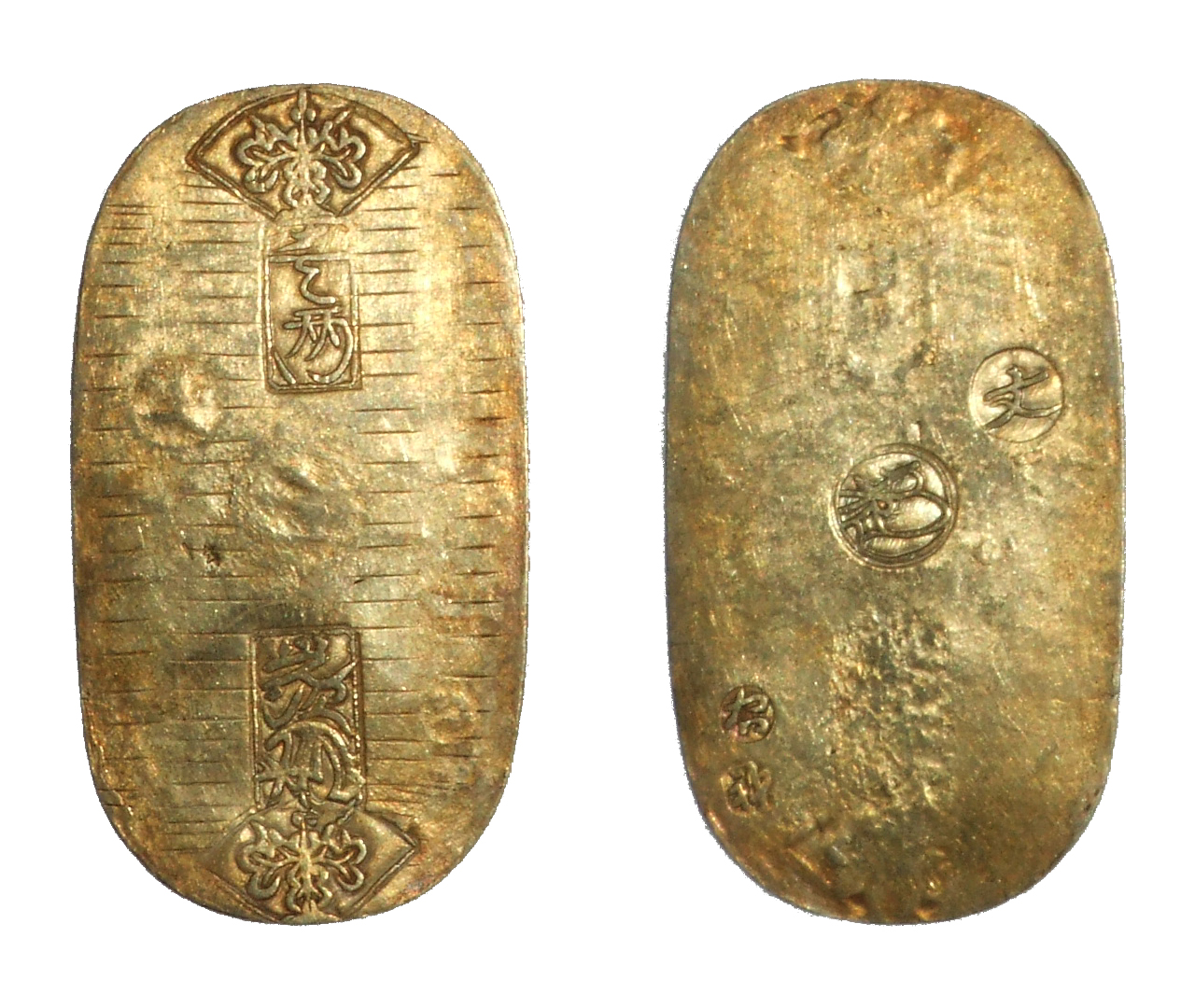 Bunzi-koban(gold koban)